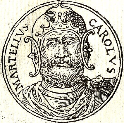 French Book "Promptuarii Iconum Insigniorum" by Guillaume Rouille (1518?-1589) published in 1553